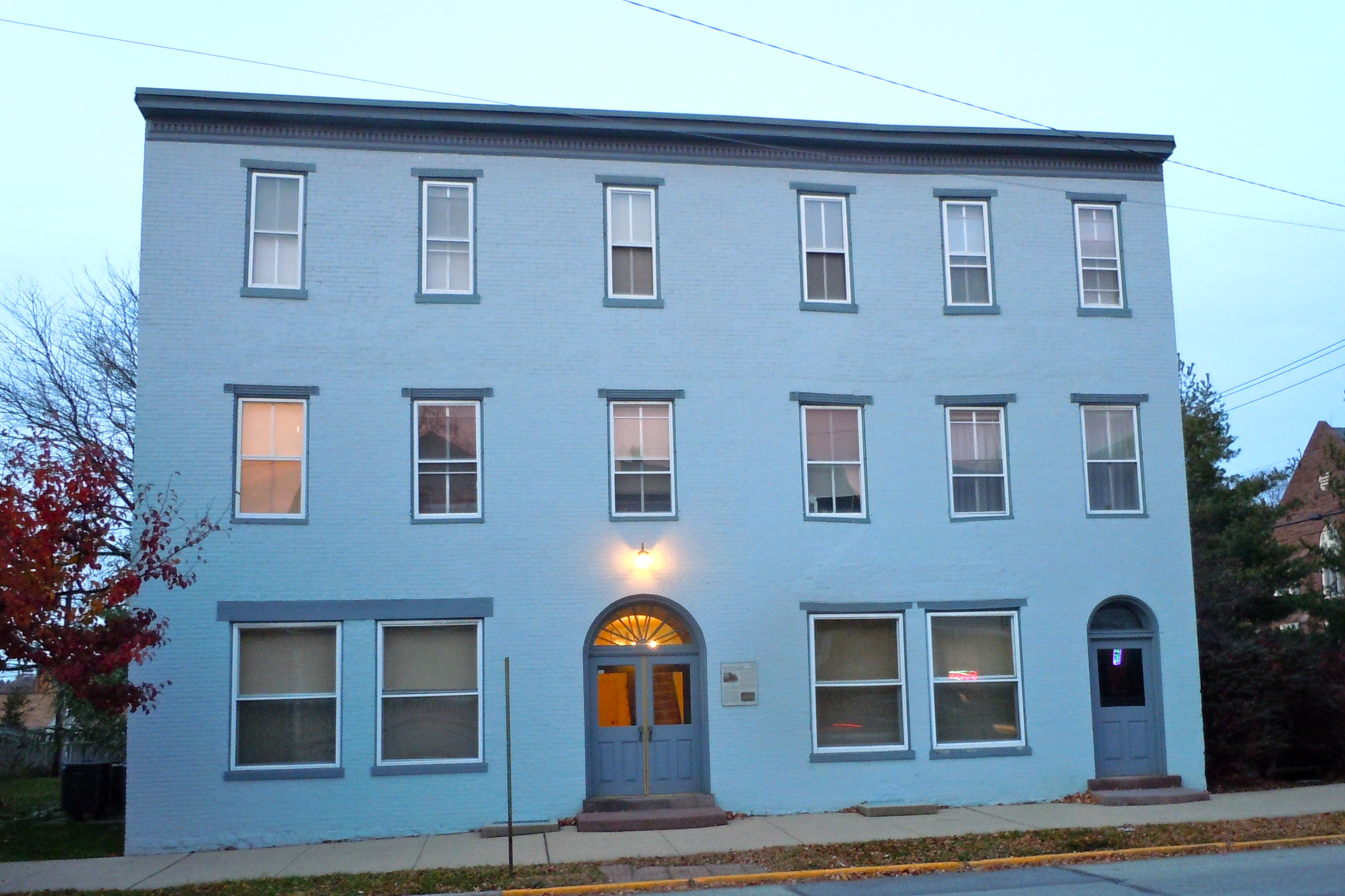 Keystone Hotel on the NRHP since May 9, 1985. At 40 East Main Street, Hummelstown, Dauphin County, Pennsylvania.